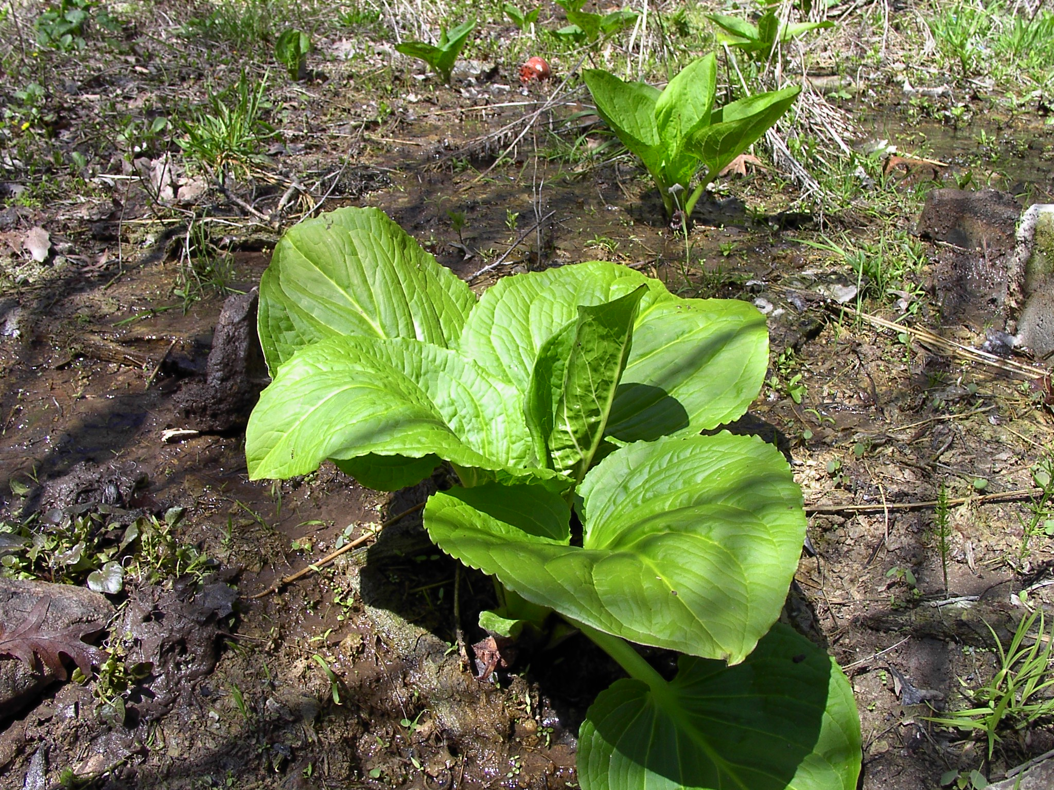 Leaves of Symplocarpus foetidus